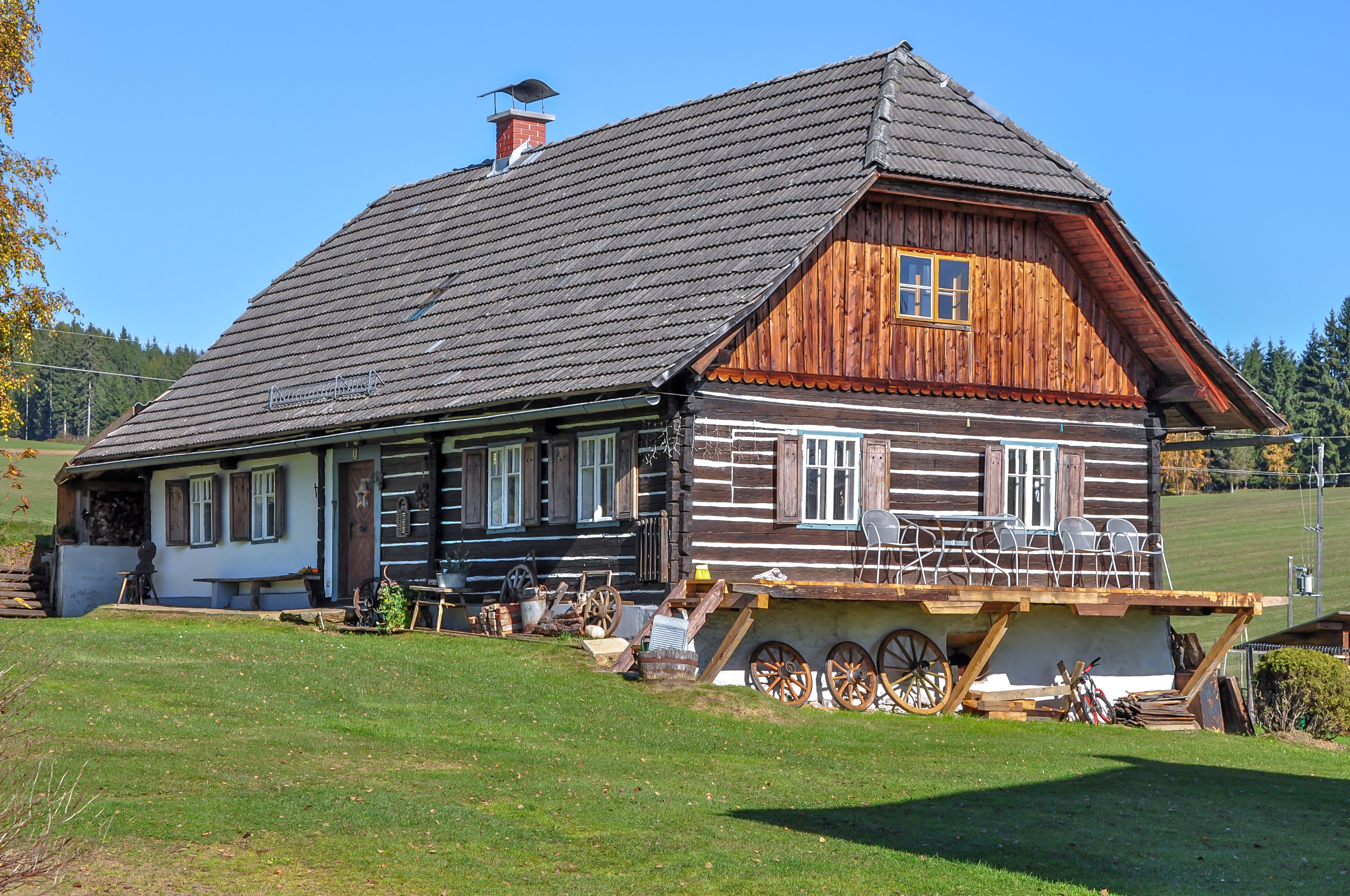 Sacristan's house in St. Jakob #5, municipality Straßburg, district Sankt Veit, Carinthia, Austria, EU